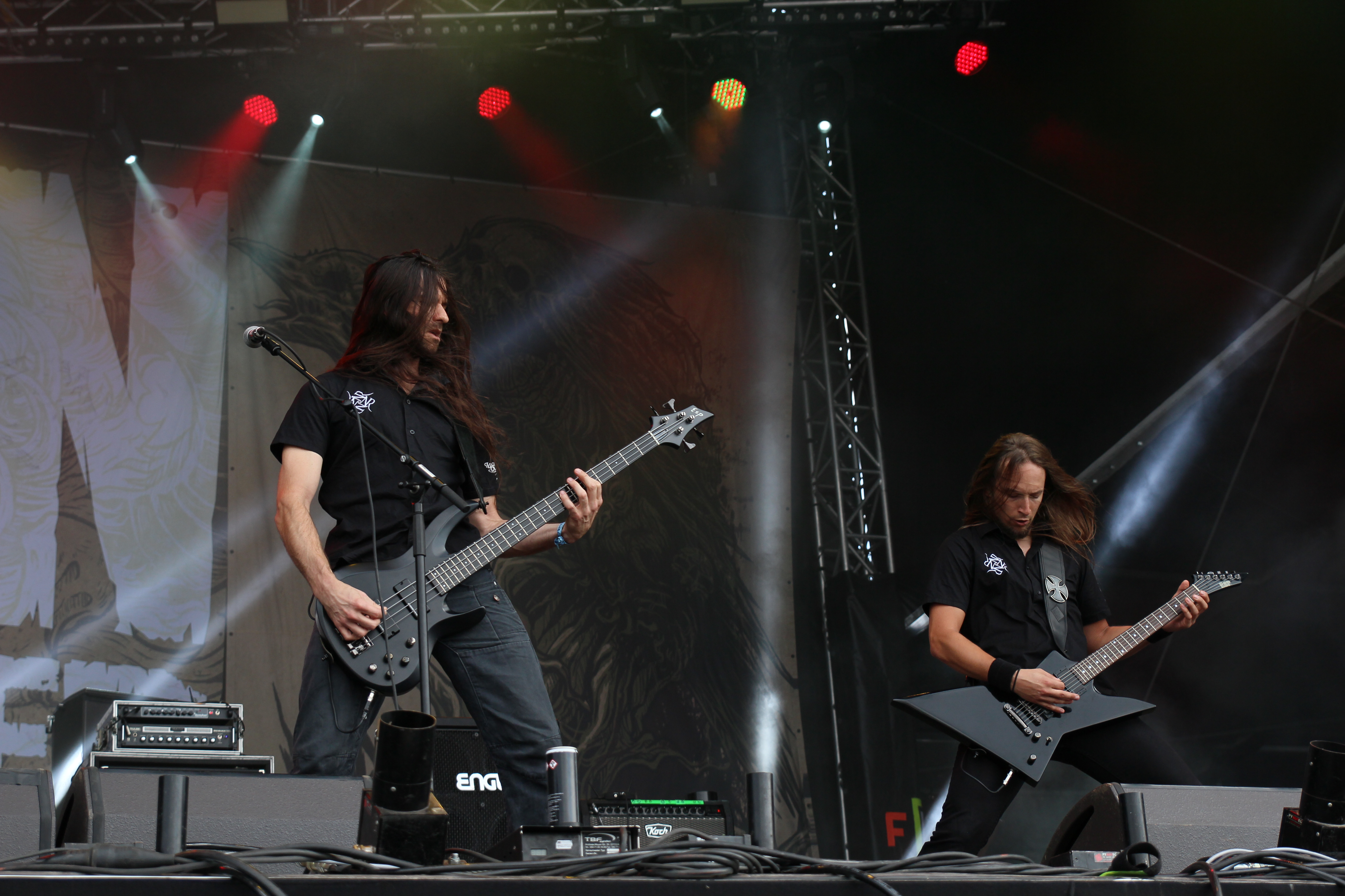 The Dutch death metal/thrash metal band Legion of the Damned at the Rockharz Open Air 2014 in Ballenstedt/Germany